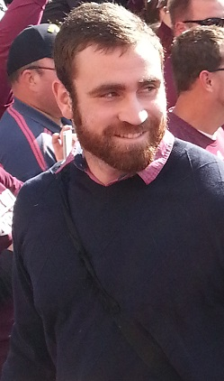 Richie Brown on November 8, 2014